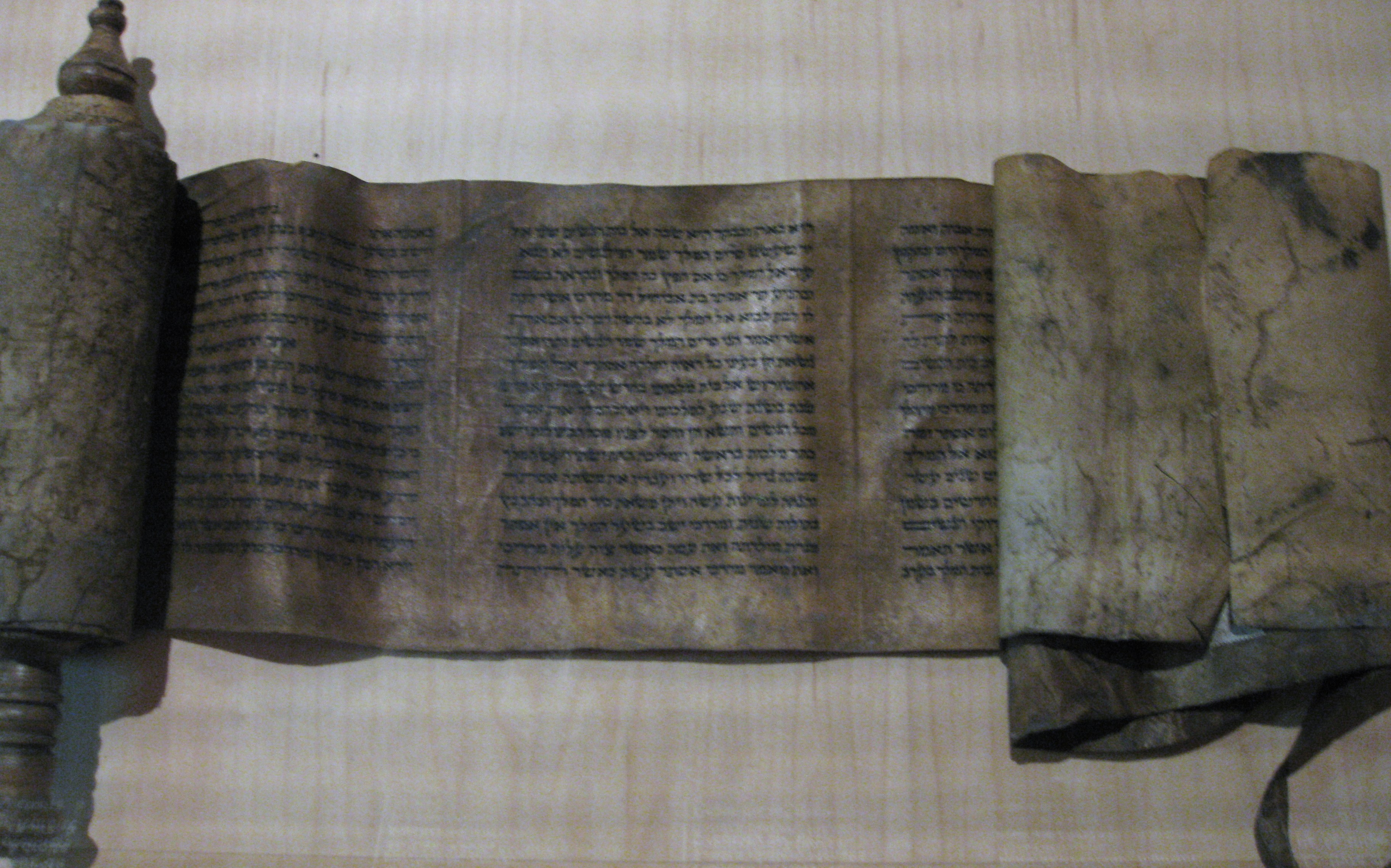 The Book of Esther from the 13th or 14th Centuray, Fez, Maroco on display at the Musée du quai Branly